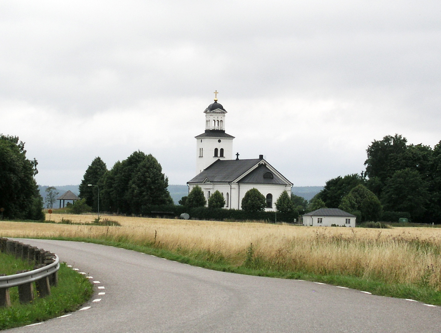 Röks kyrka, Ödeshögs kommun. The photo was taken the 30th of July by Håkan Svensson (Xauxa).